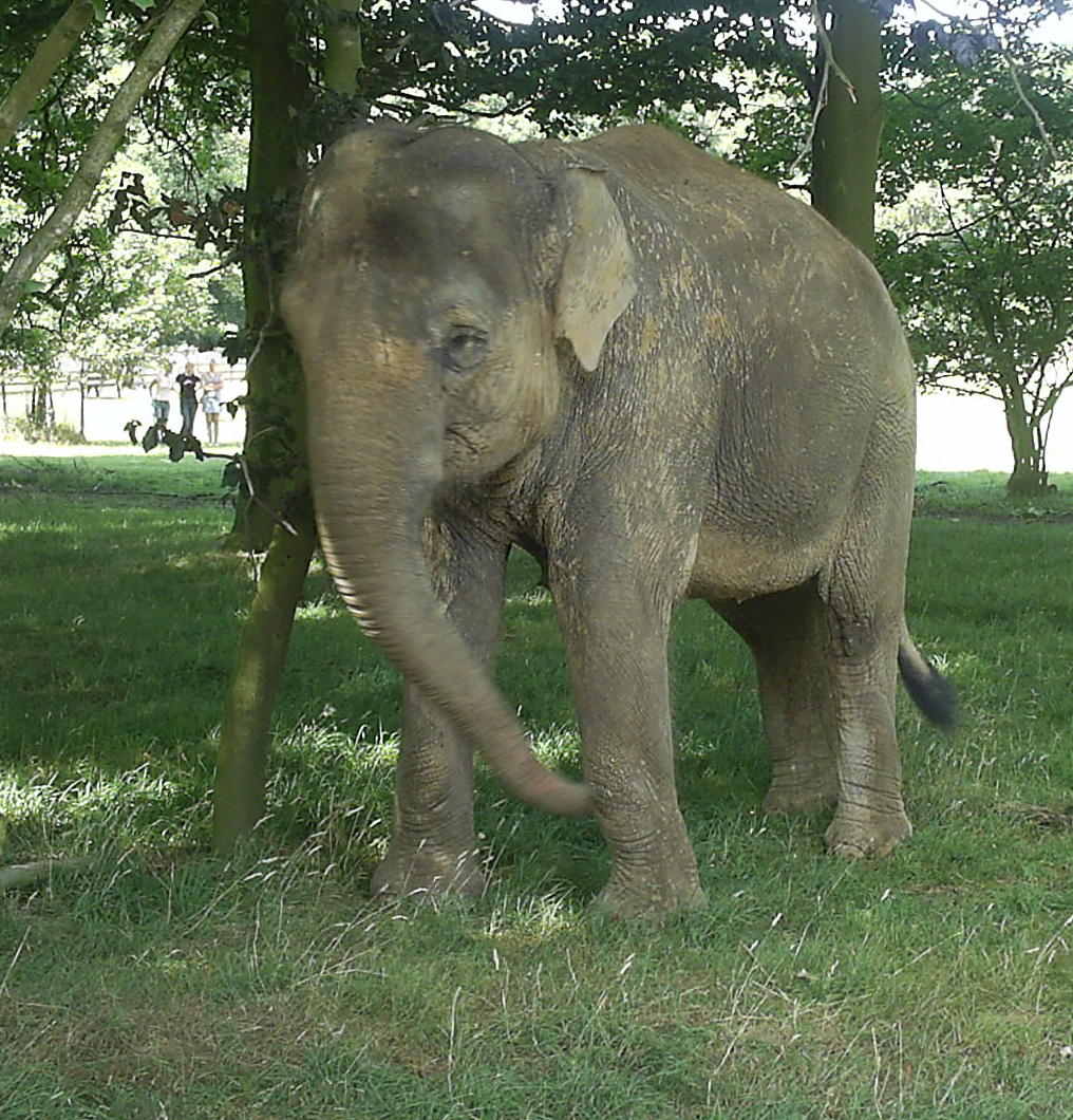 Indian elephant at Whipsnade Zoo . Summer 2006. Made by me Lumos3 20:52, 27 March 2007 (UTC)